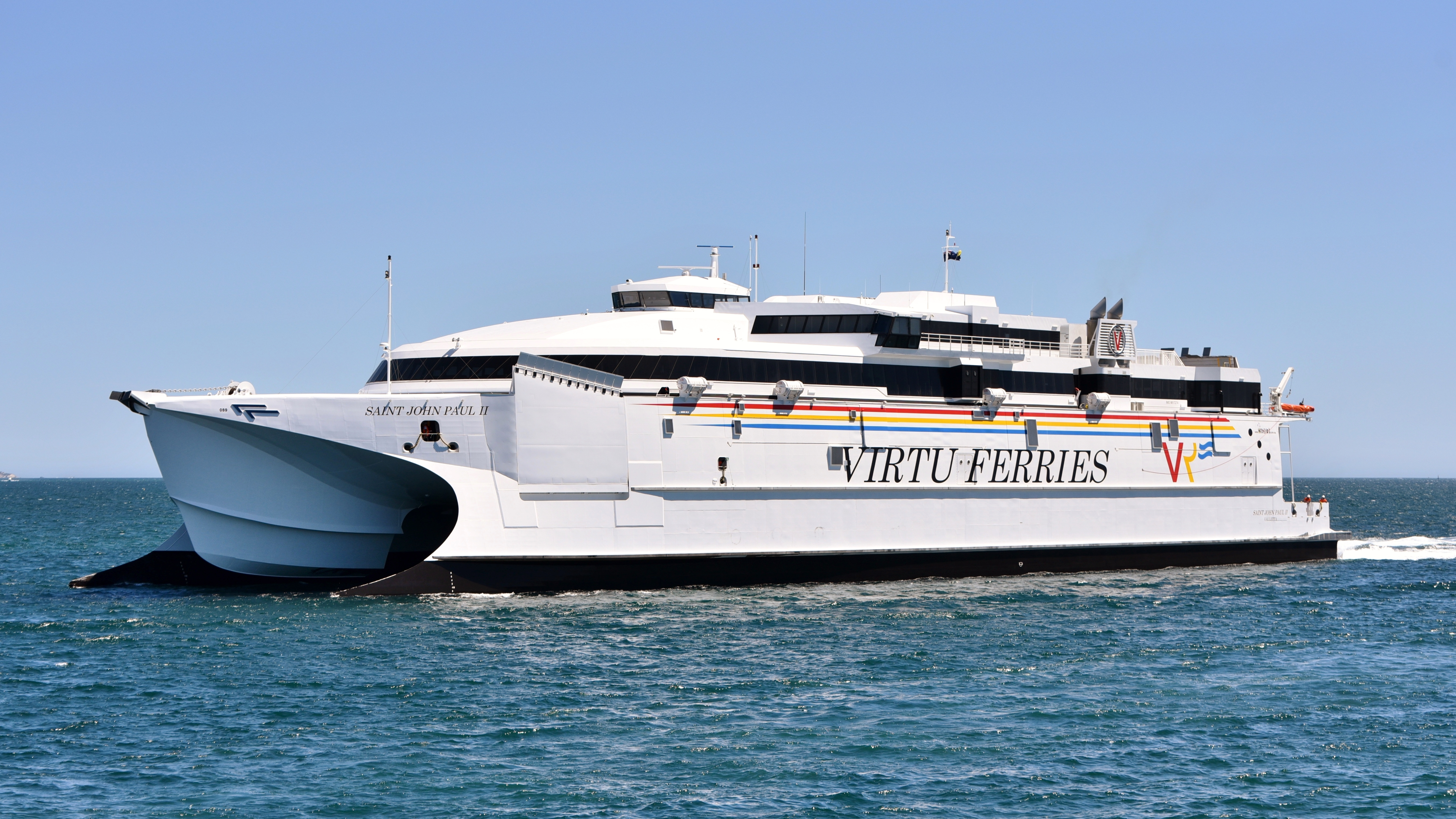 High-speed catamaran ferry Saint John Paul II entering the inner harbour of the Port of Fremantle during her delivery voyage from Hobart, Australia, to Valletta, Malta